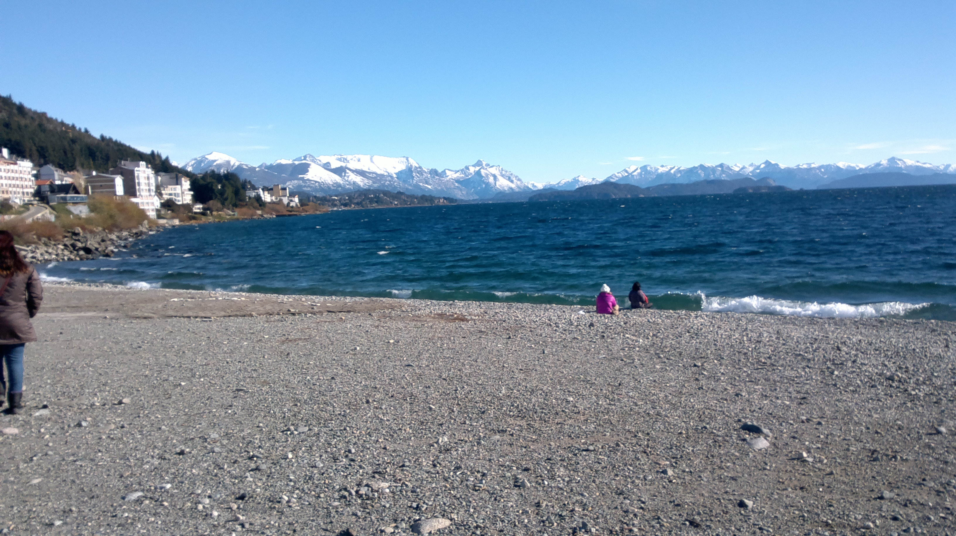 Nahuel Huapi lake 53